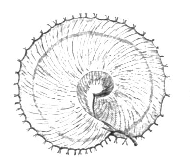 Illustration from book